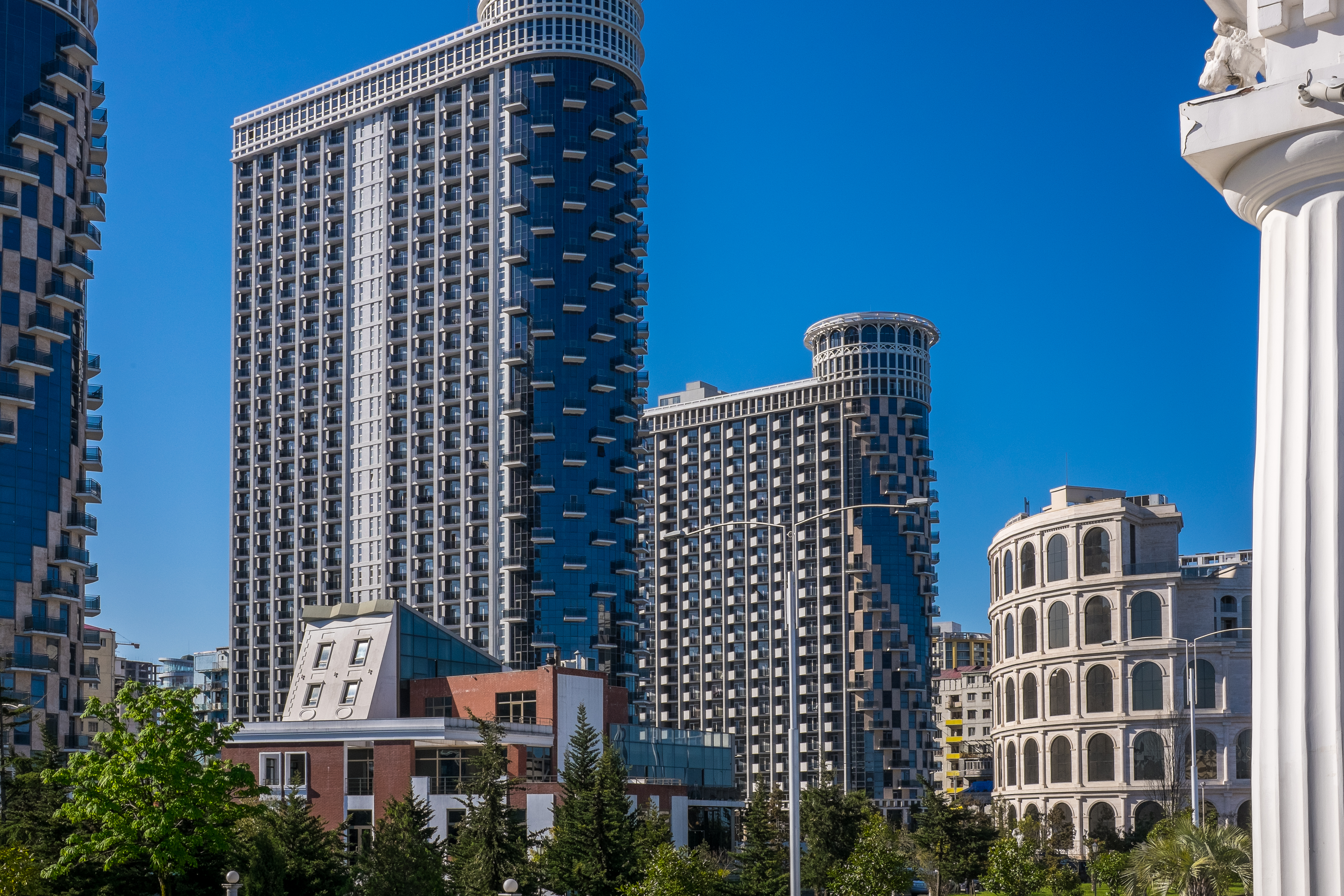 Modern buildings rising across the Black Sea coast of Batumi, Georgia